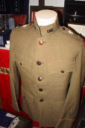 WWI chaplain uniform, showing Christian Chaplain symbol.